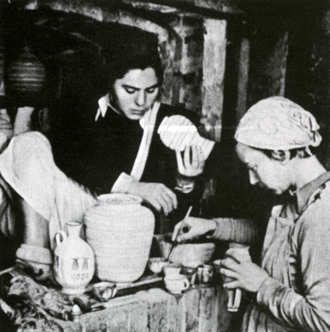 Mira libes and hava samuel next to the kiln